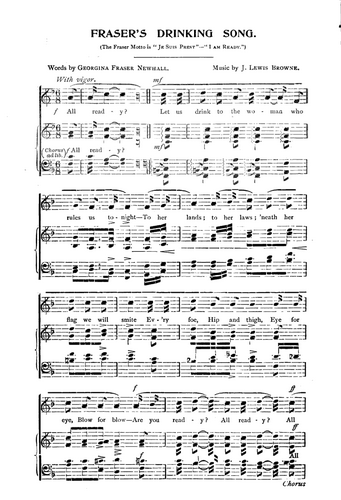 Fraser's Drinking Song, by Georgina Fraser Newhall (page 1)